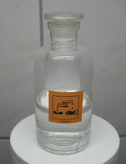 Appr. 40 ml of 60% perchloric acid.